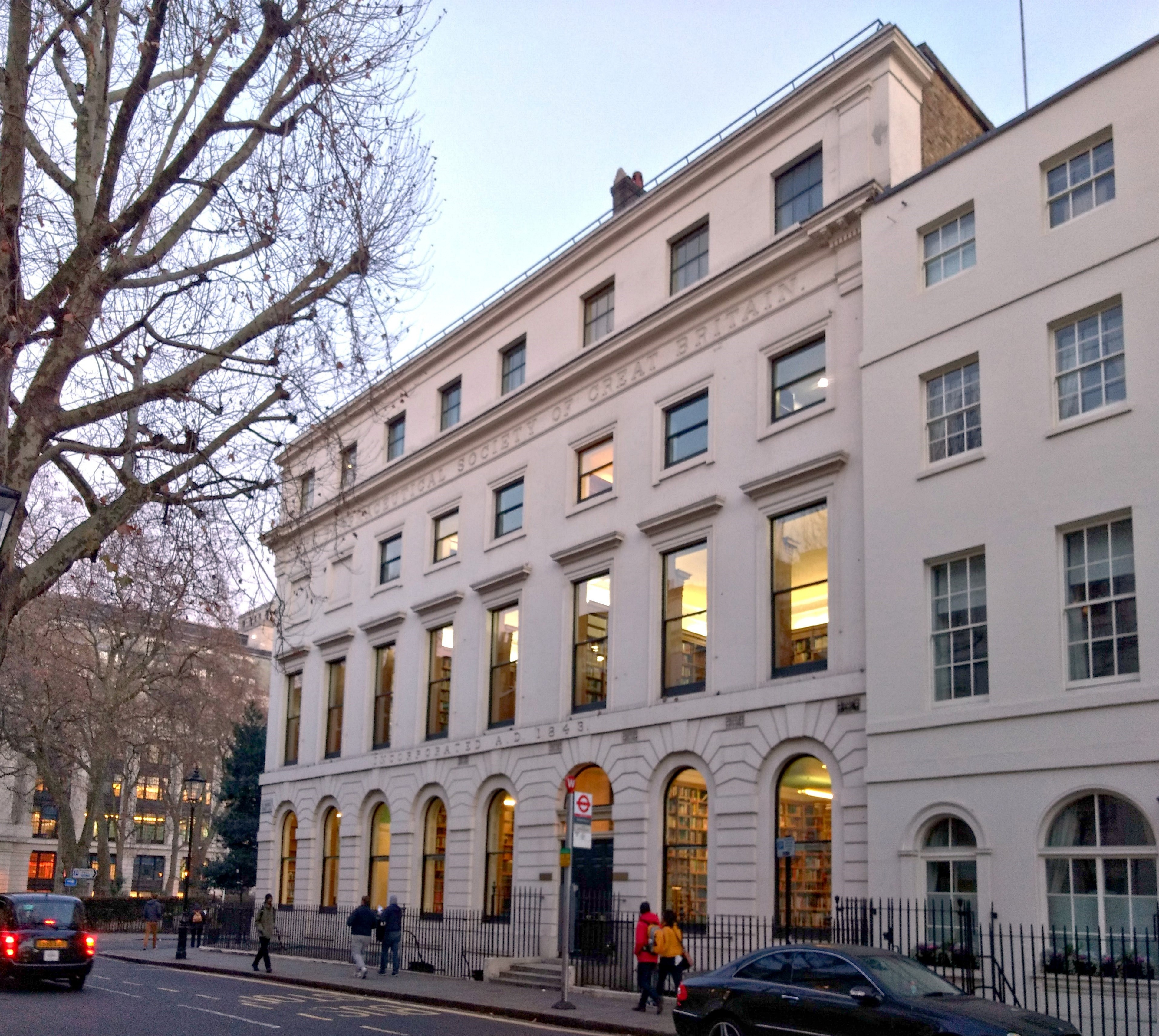 London